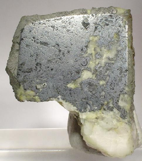 Safflorite, Löllingite, Rammelsbergite Locality: St Andreasberg District, Harz Mts, Lower Saxony, Germany (Locality at ) A nicely-shaped, rich, old-time, polished ore specimen of safflorite, lollingite and rammelsbergite with quartz from the famous Andreasberg District of the Harz Mts, Germany. Safflorite, lollingite and rammelsbergite are cobalt, iron, nickel arsenides. This piece comes with two old labels. Ex Richard Hauck Collection. 4.5 x 4.0 x 2.0 cm